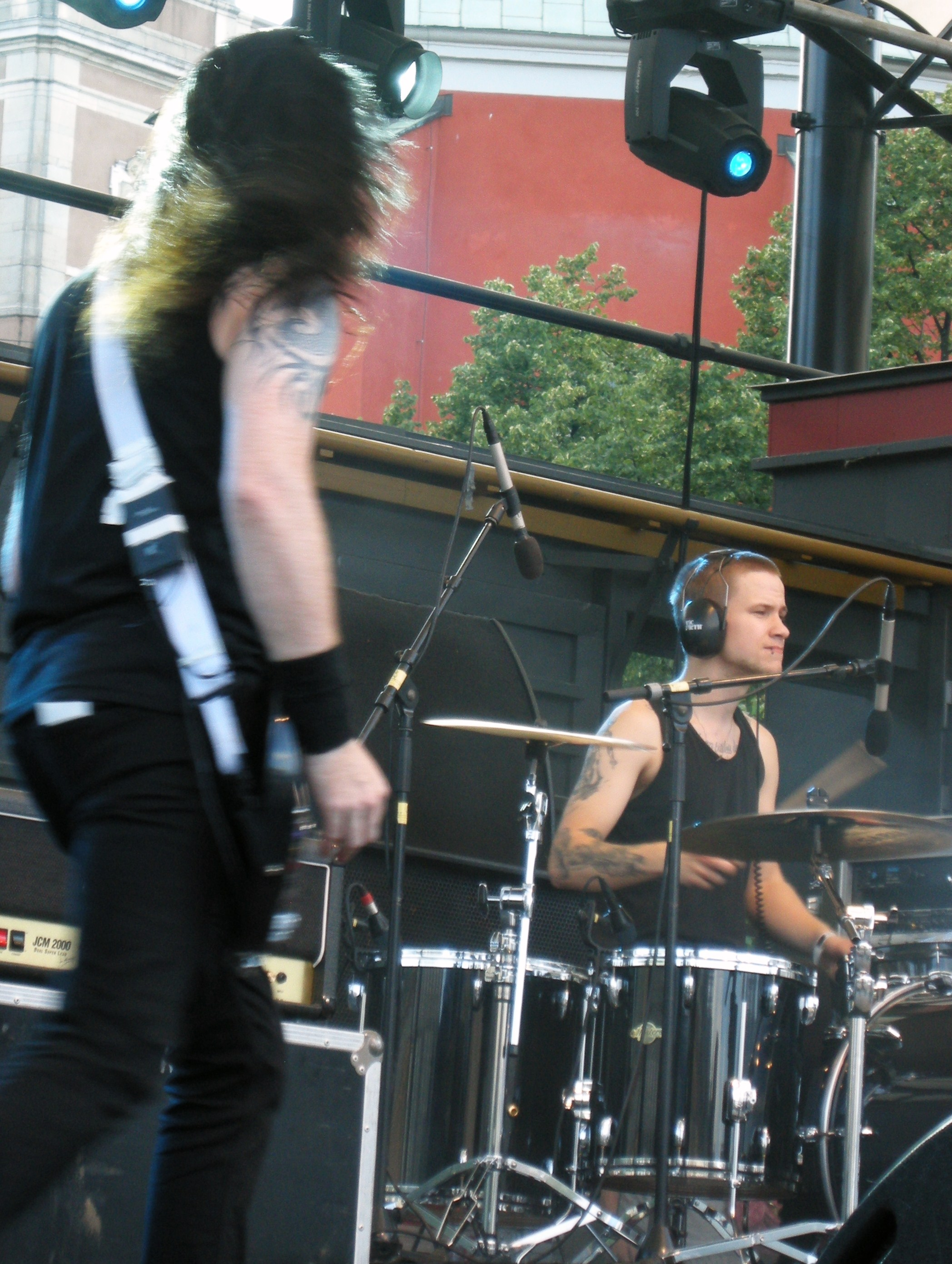 Jimmy Olausson, drummer of Swedish metal band Engel, Kungsträdgården, Stockholm augusti 2010